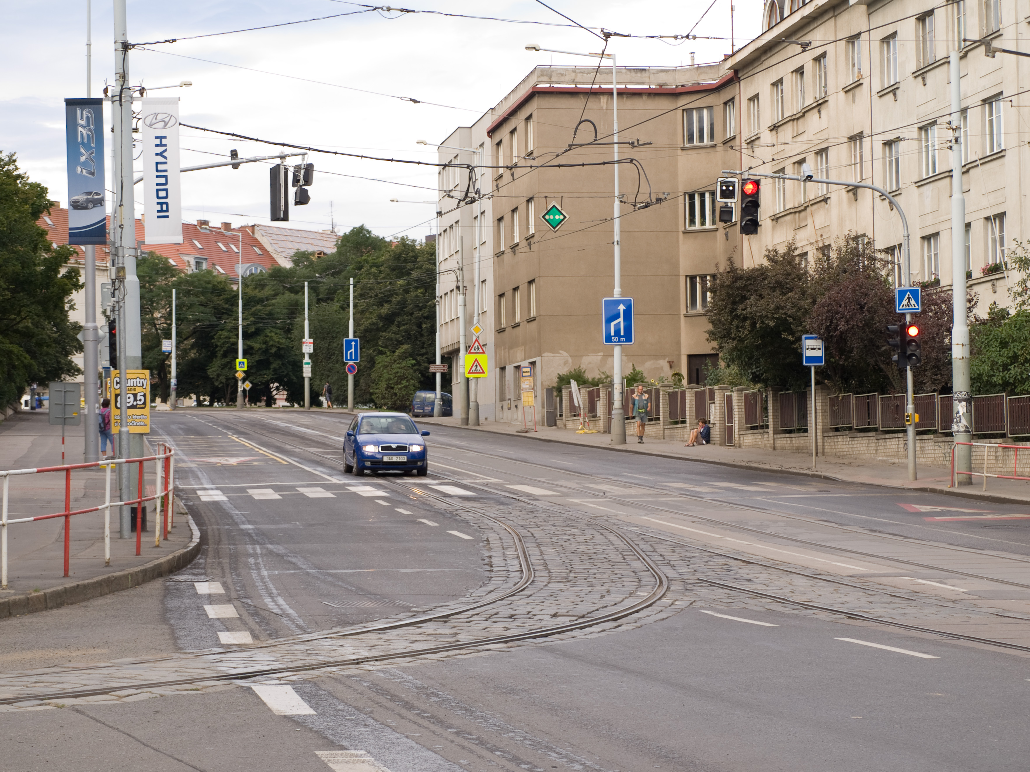 Tram track Hládkov, Prague